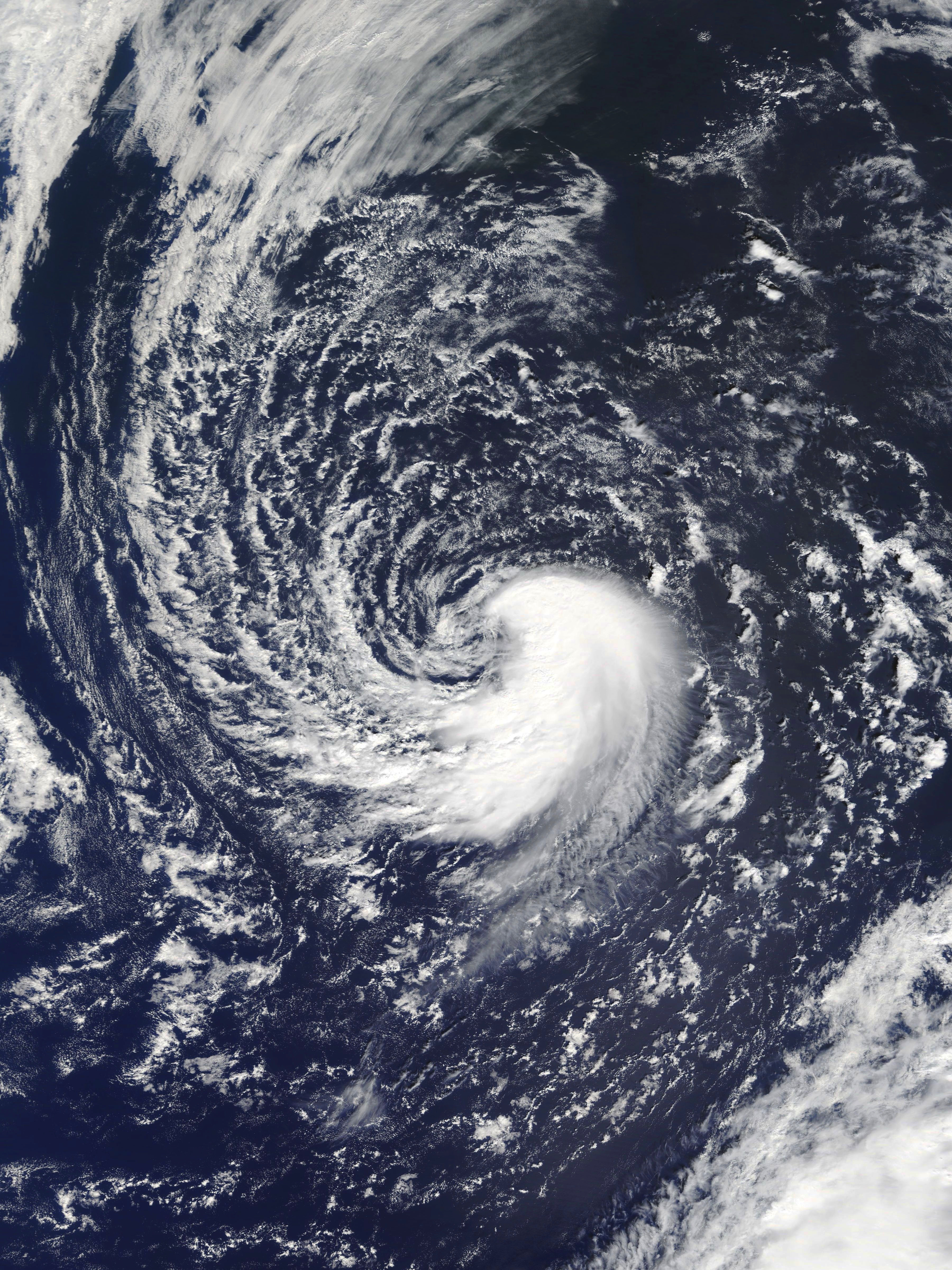 Subtropical Storm Leslie northeast of Bermuda on September 29, 2018